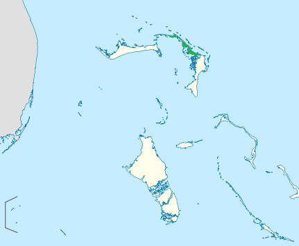 Location map of the Bahamas Equirectangular projection, N/S stretching 105 %. Geographic limits of the map: * N: 27.5° N * S: 20.7° N * W: 80.7° W * E: 70.8° W